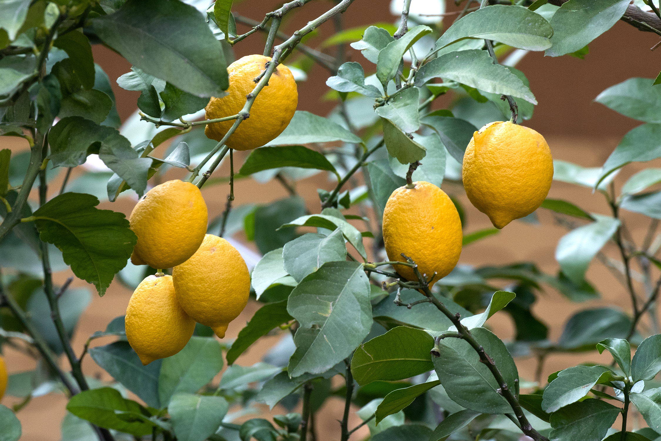 Interdonato lemons.